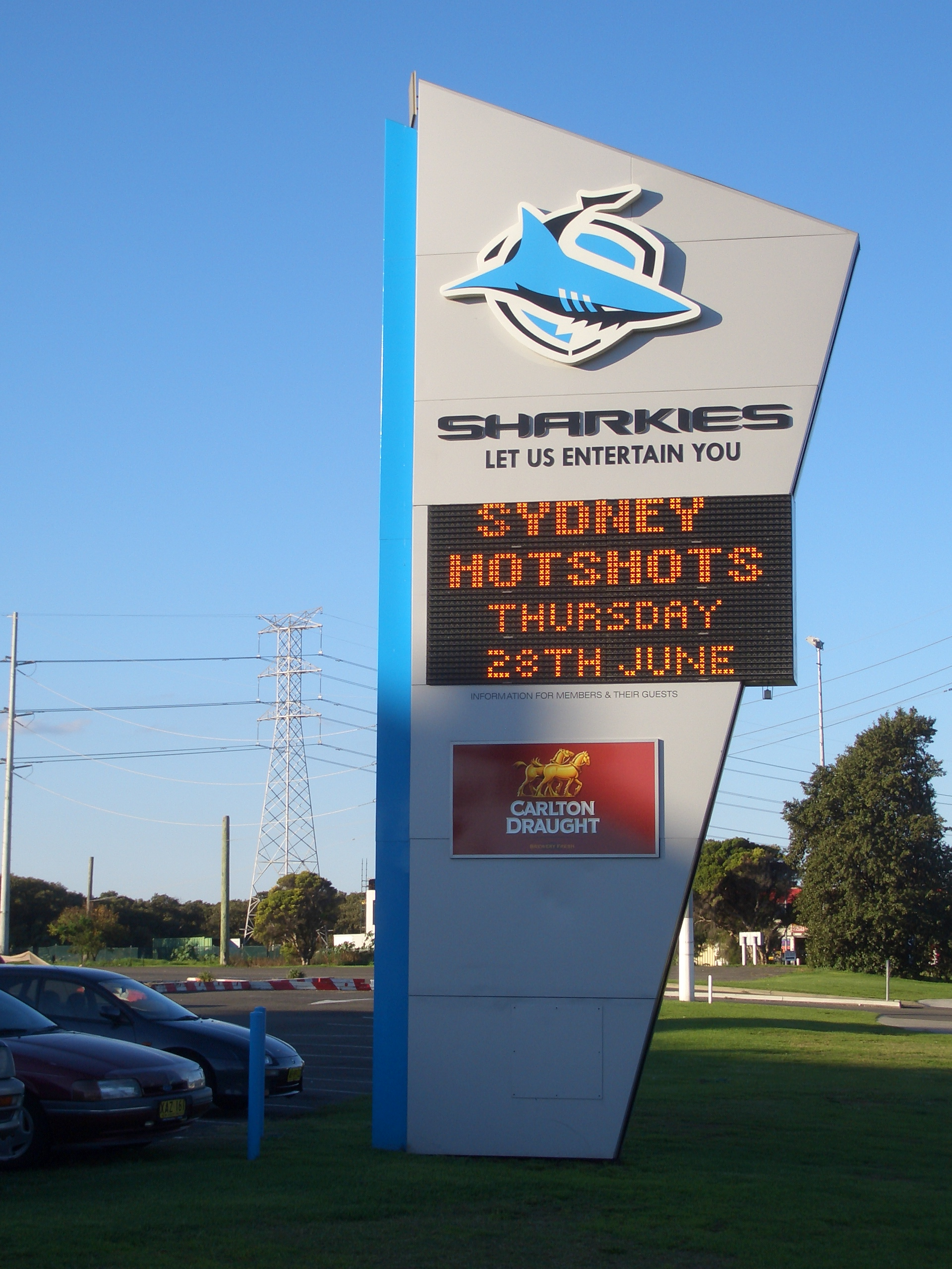 Sharkies Leagues Club Sign